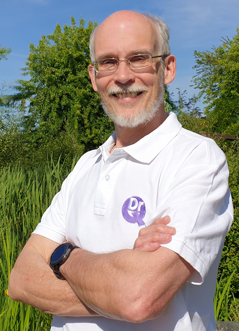 Dr. Thomas Kinne, aka Quizdoktor